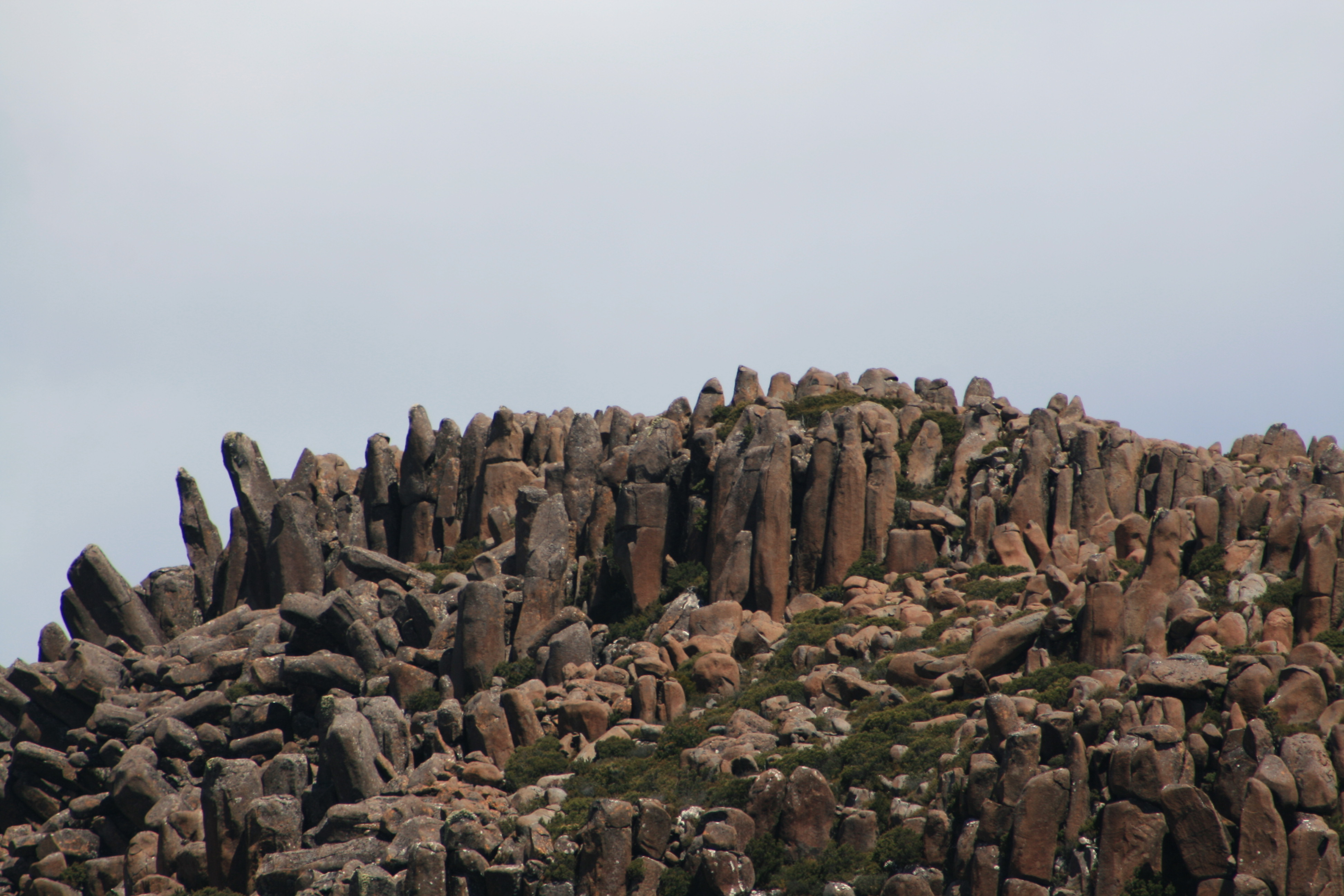 Hobart, Tasmania, Australia